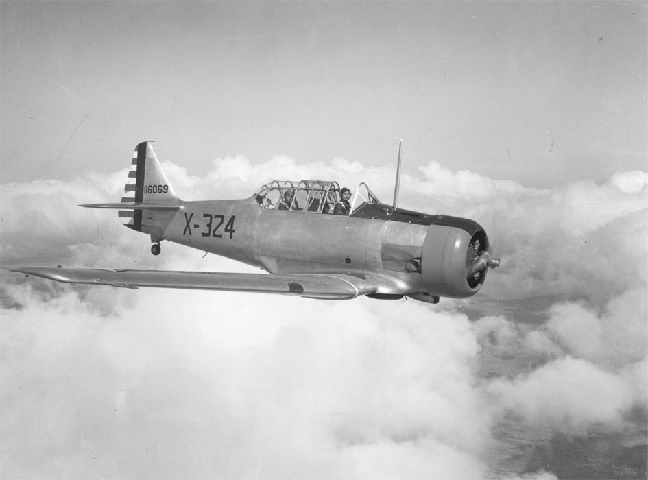 Description: North American AT-6A (NA-78) in flight. In this excellent shot Mo Chung Yung is shown at the controls with instructor in the rear flying.